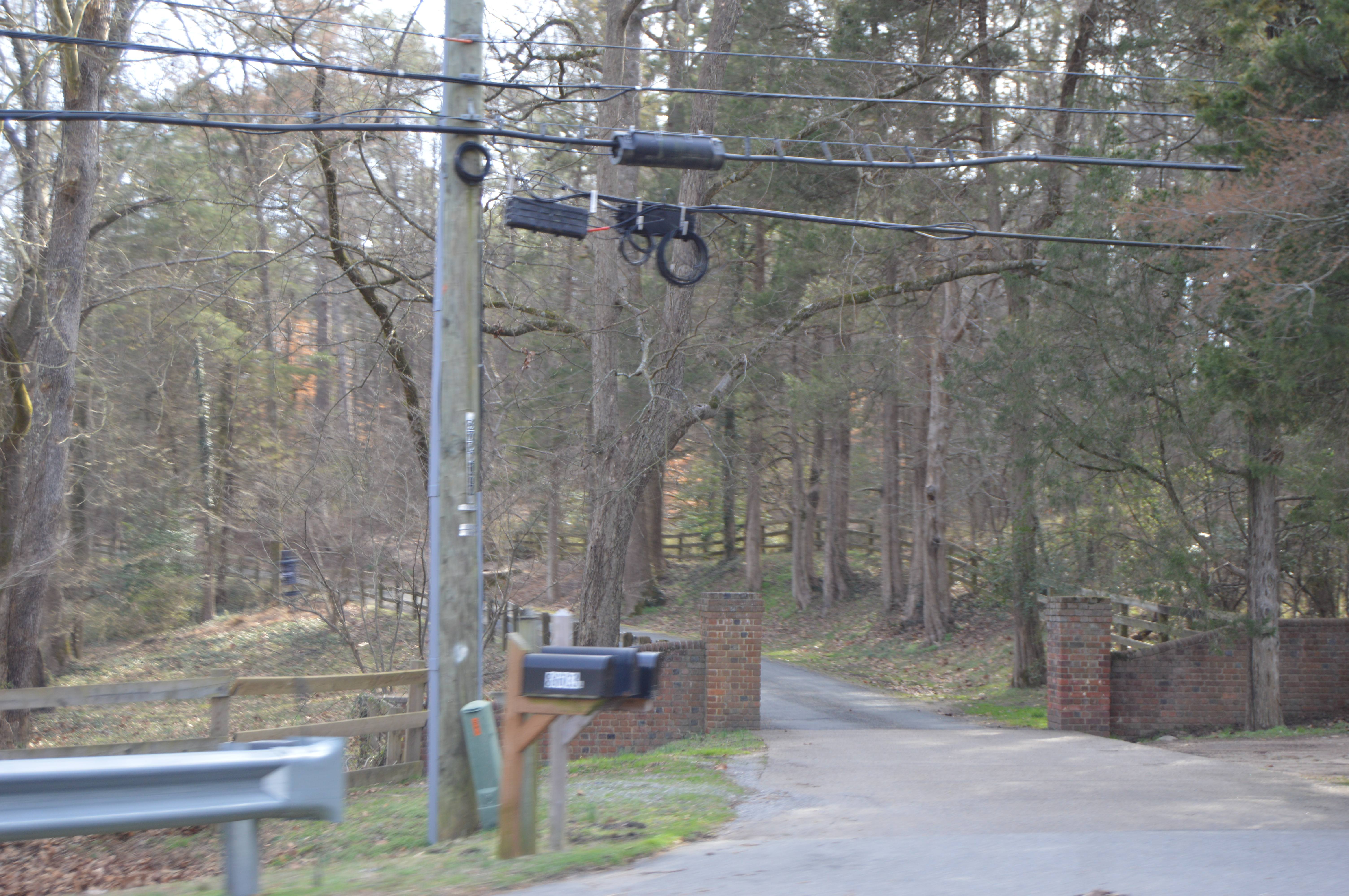 Entrance to the Redesdale estate, located at 8603 River Road just west of Richmond in Henrico County, Virginia, United States. The estate is listed on the National Register of Historic Places.